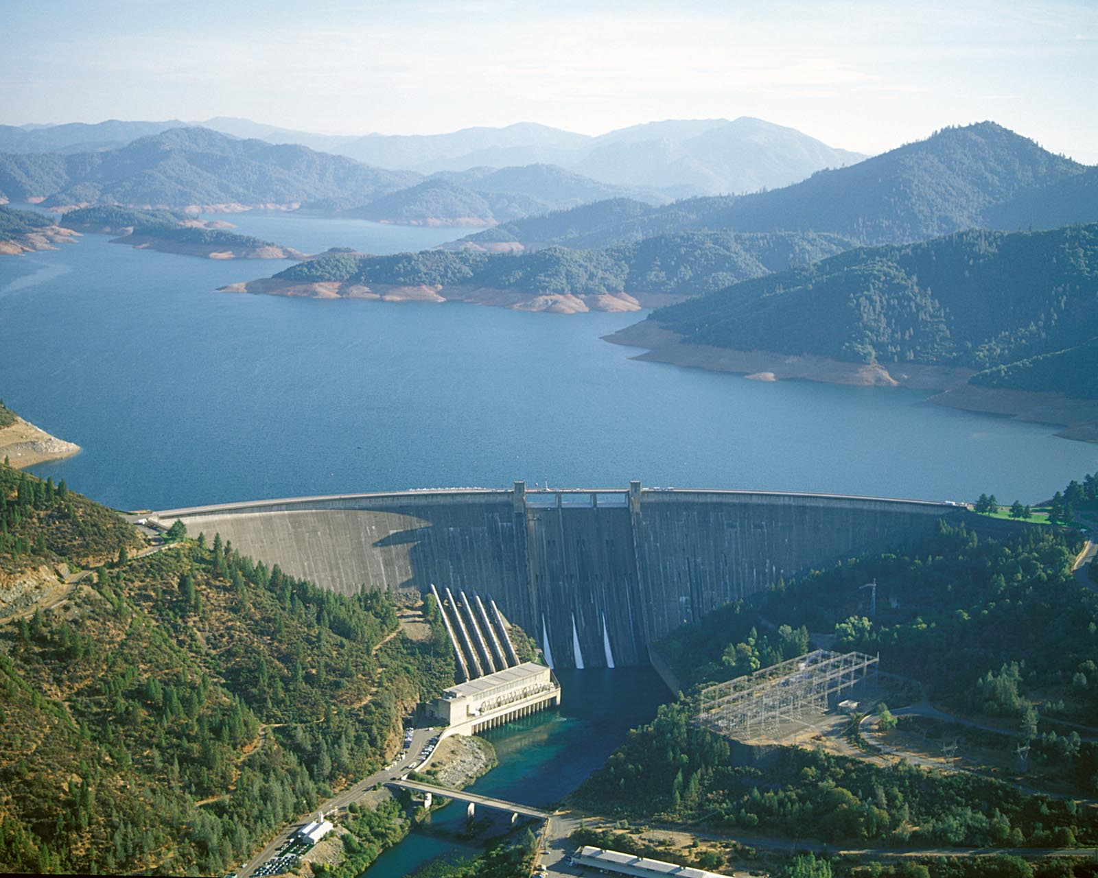 Shasta Dam, in northern California, is considered "The Keystone to the Central Valley Project." Primarily a rain-fed reservoir, Shasta Lake is 90% rainfall and 10% snow melt. The areas average rainfall is 62 inches a year. The rain season usually runs from early November through May.